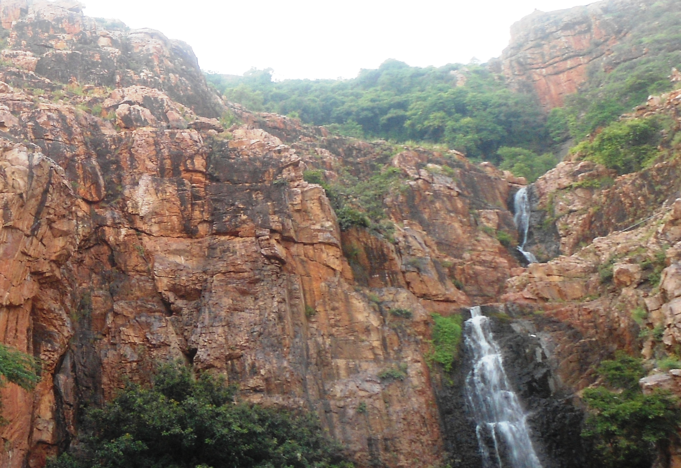 Sandstone of Detrital Archaean rocks at Kapilatheertham in Tirupati